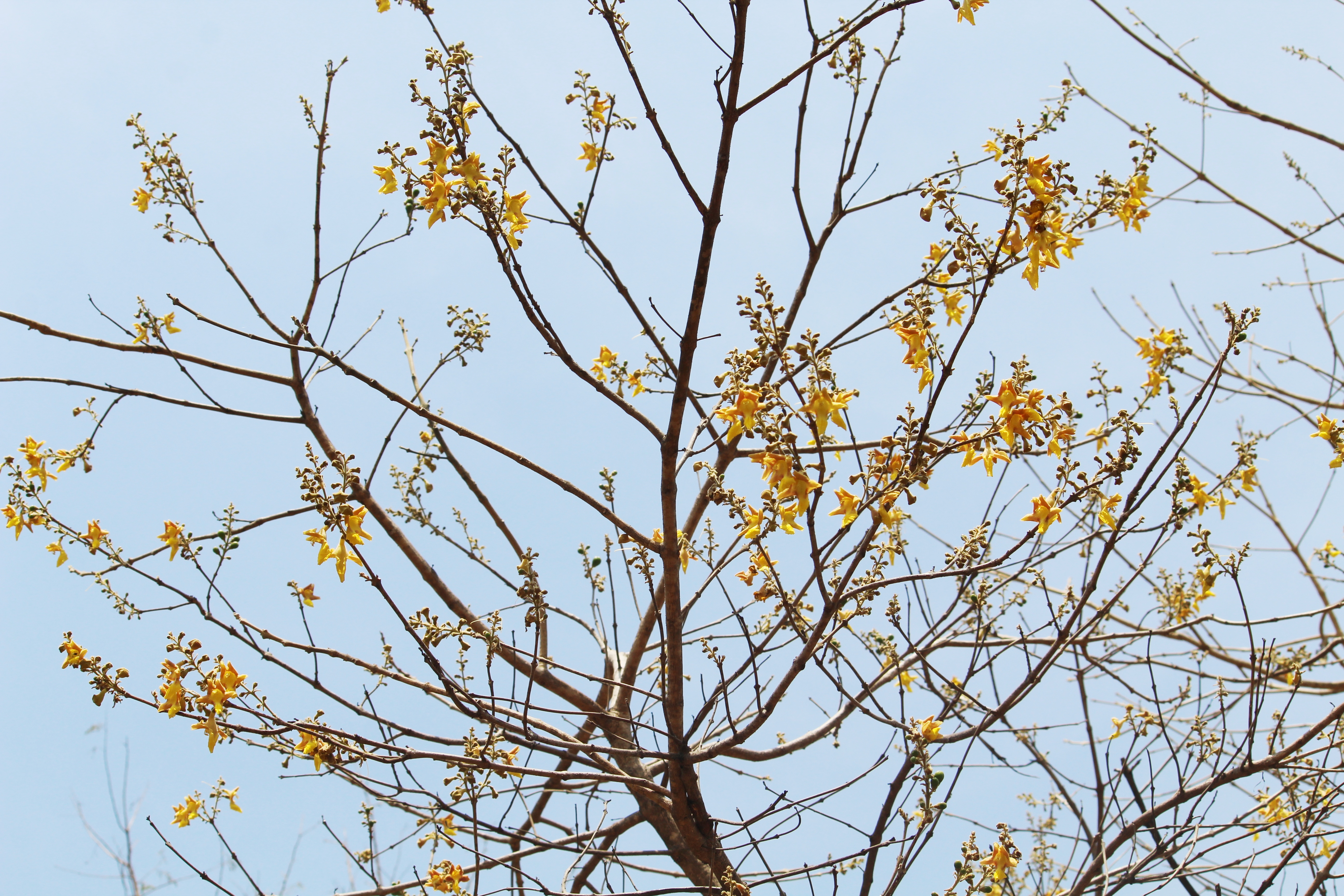 Photographs by Haneesh K M 2018